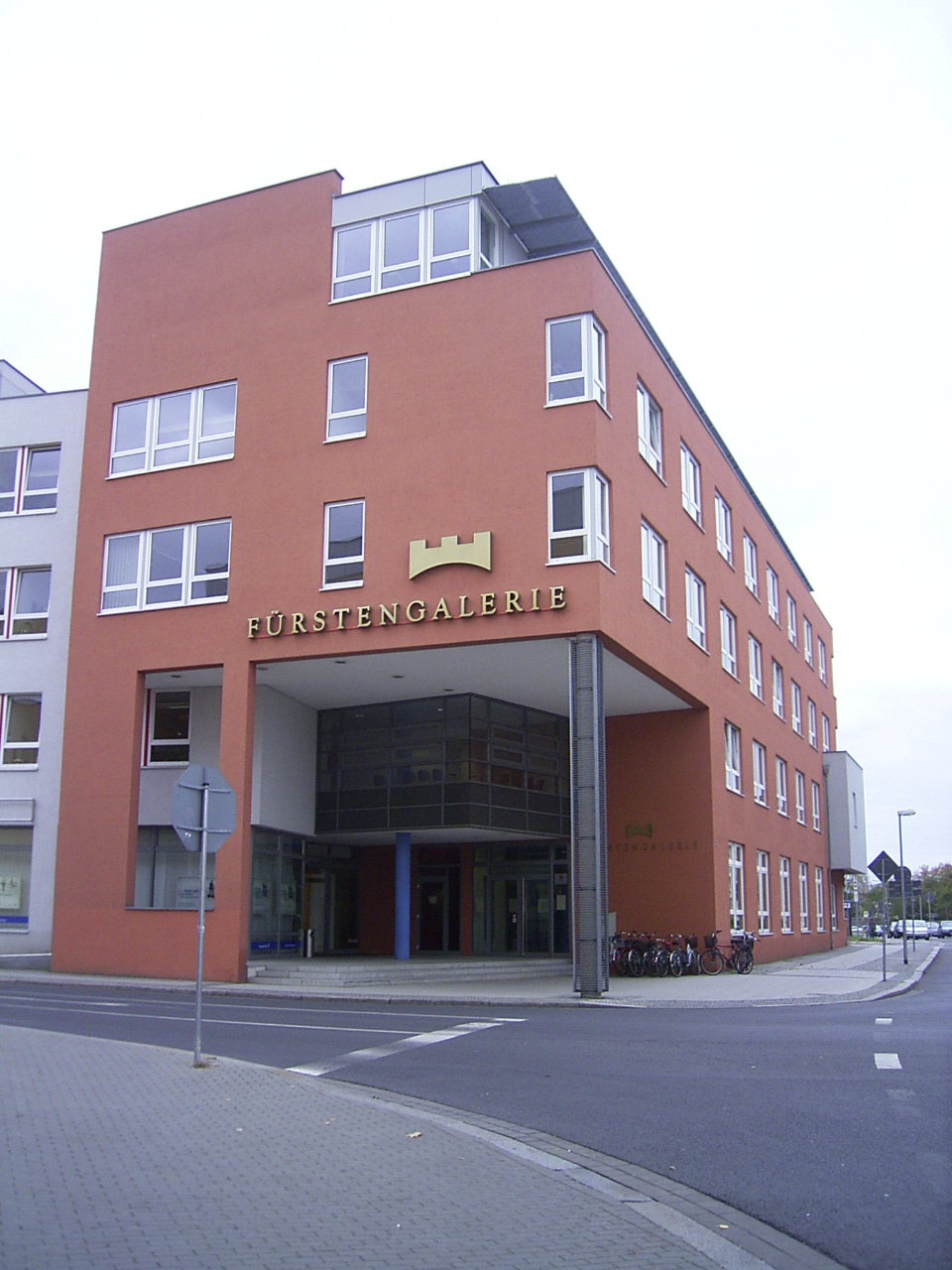 The Fürstengalerie (“princes' gallery”) in Fürstenwalde/Spree, Brandenburg, Germany.